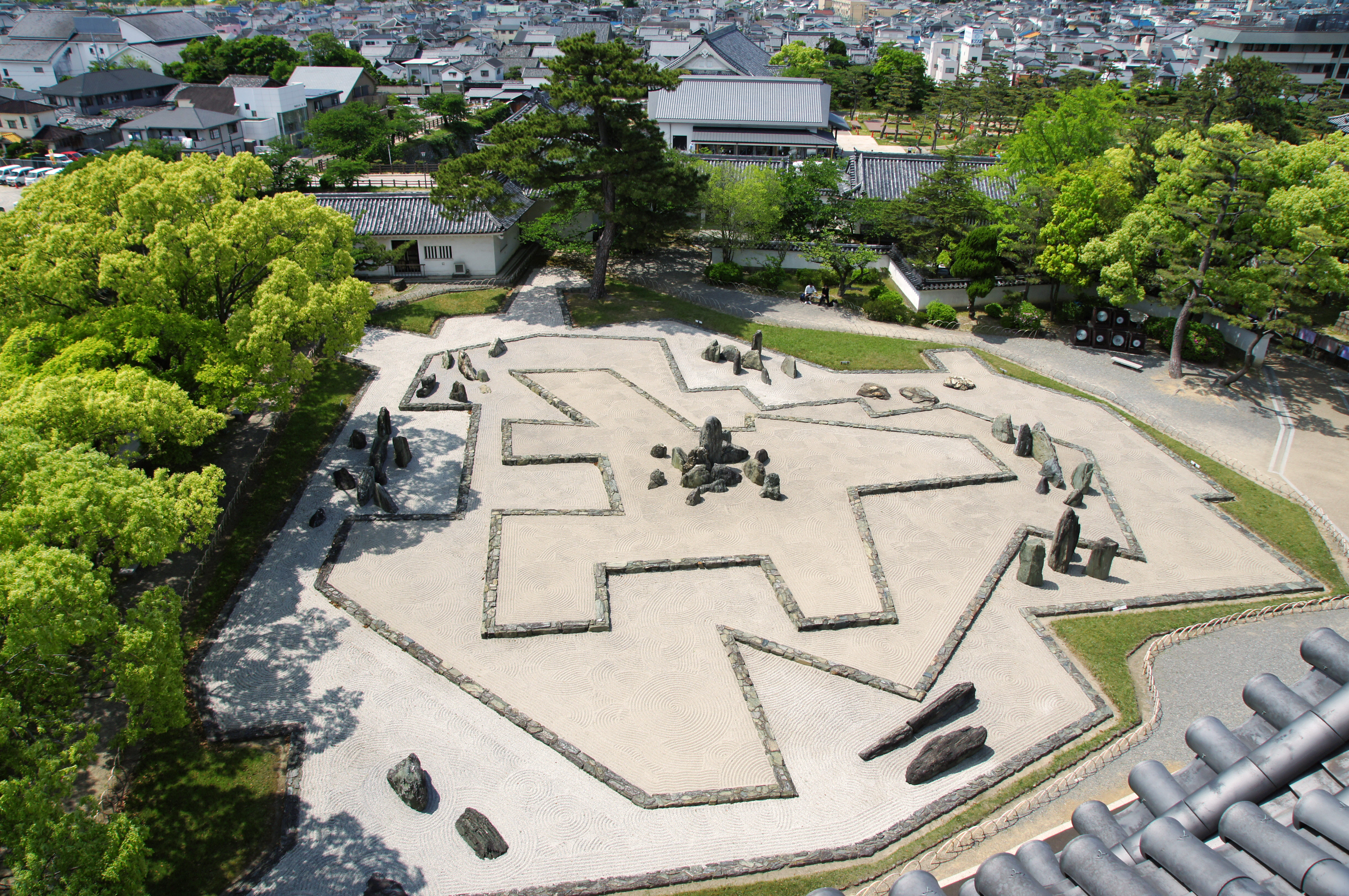 Kishiwada_Castle in Kishiwada, Osaka prefecture, Japan